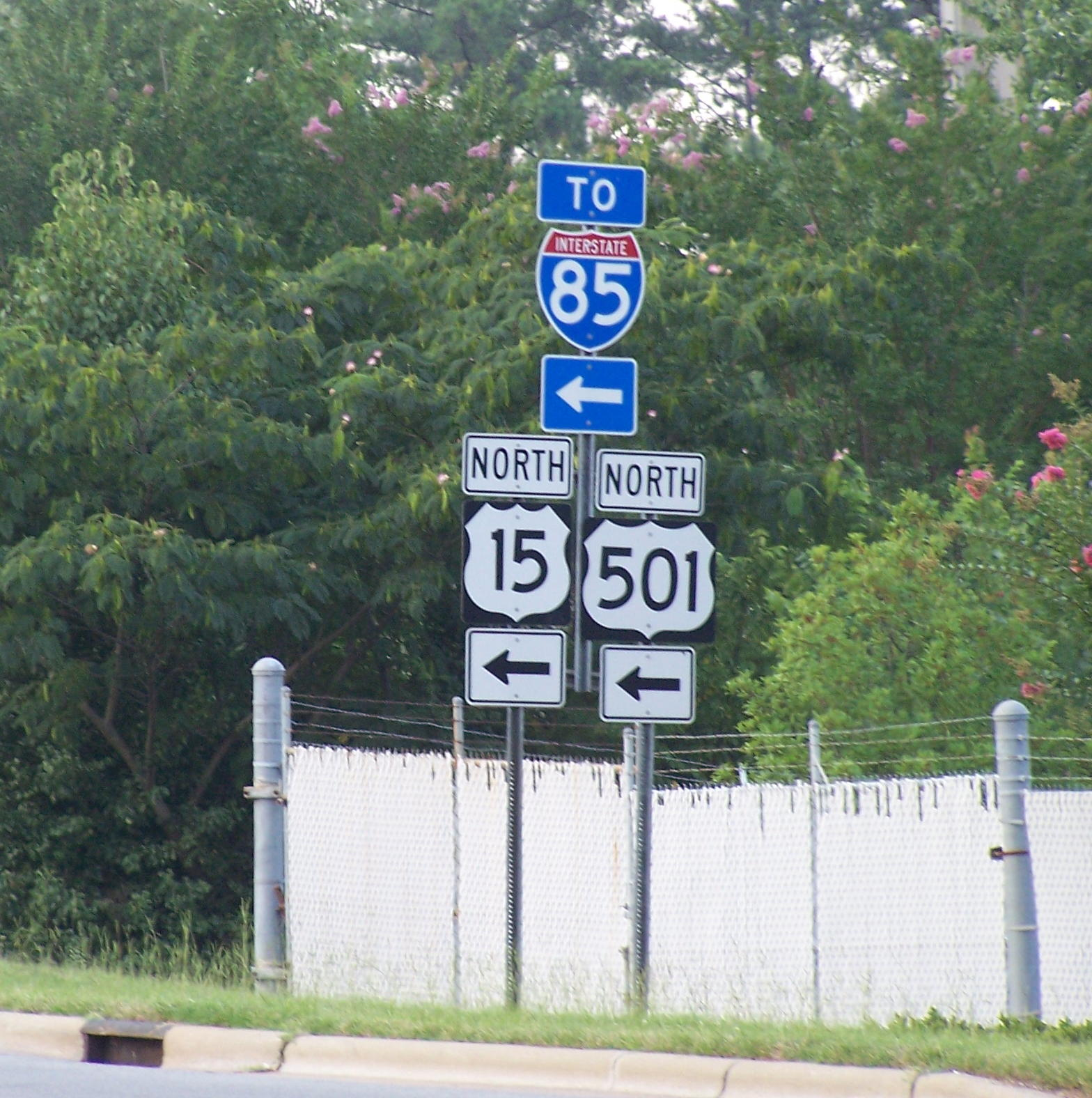 Signs denoting northbound US Routes 15/501 in Durham, NC.